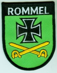 Destroyer "Rommel"